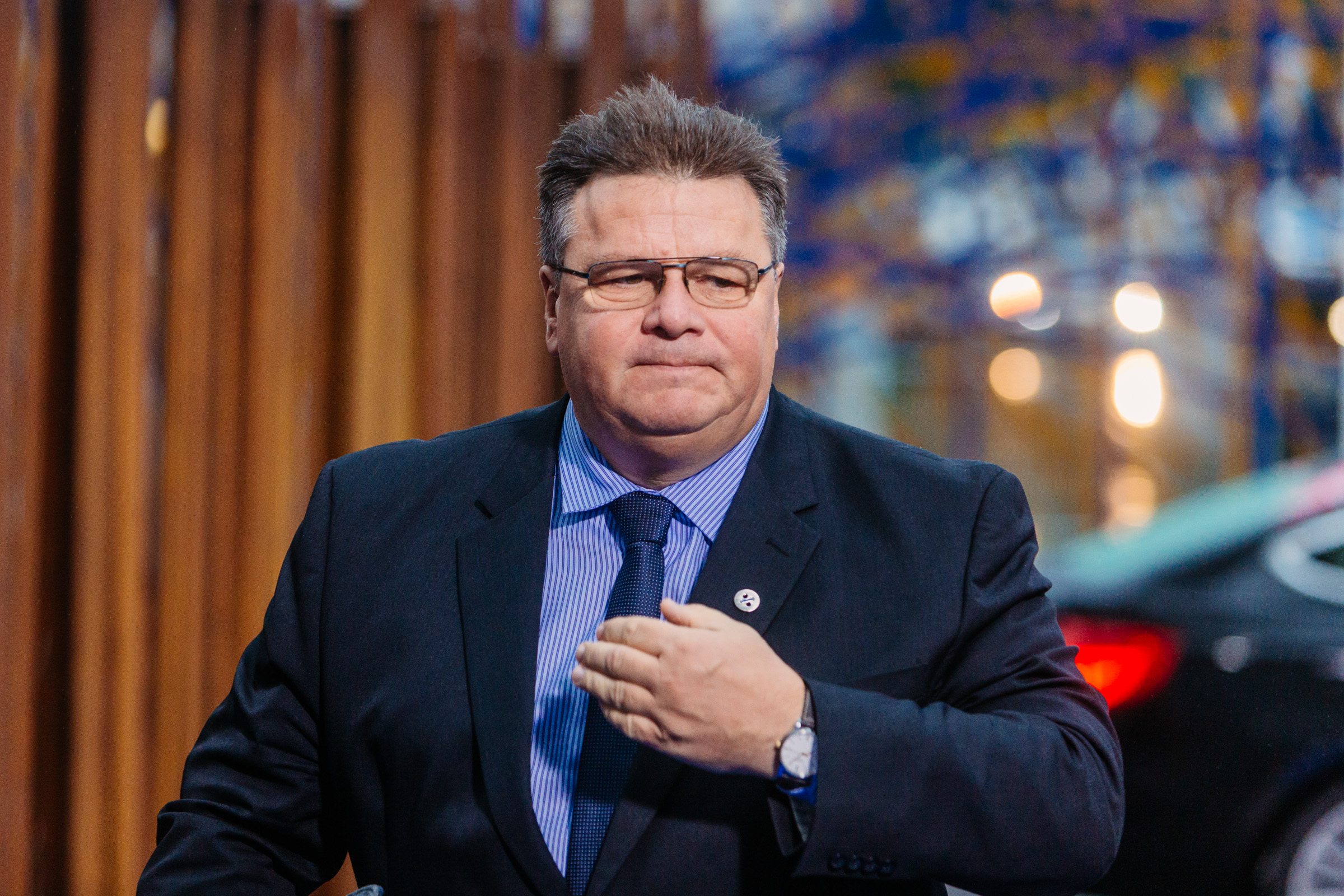 Linas Linkevičius, Minister, Ministry of Foreign Affairs, Lithuania Photo: Arno Mikkor (EU2017EE)